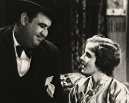 Billy Gilbert & Barbara Kent in Chinatown After Dark - cropped screenshot